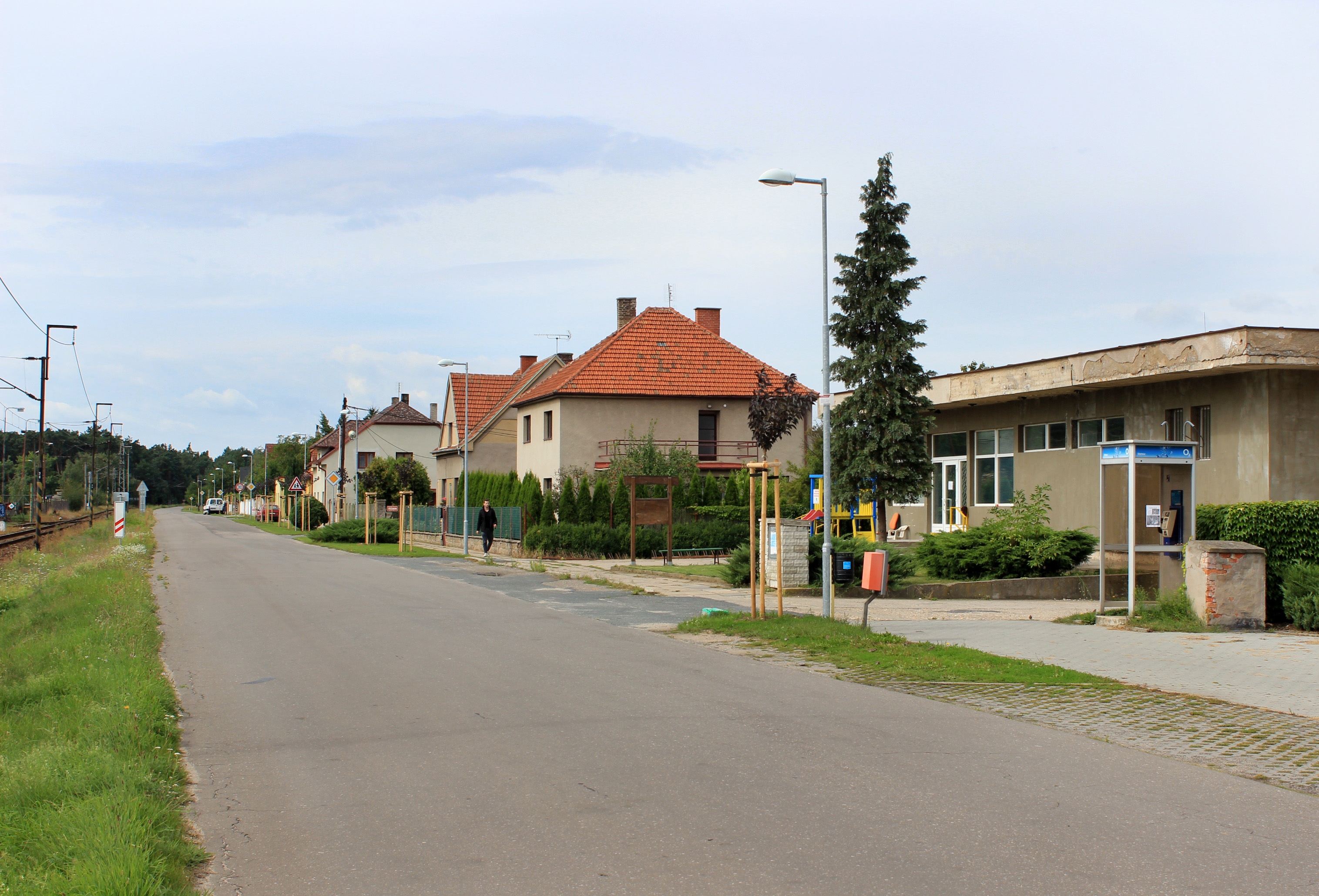 Železniční street - main road in Třebestovice, Czech Republic.